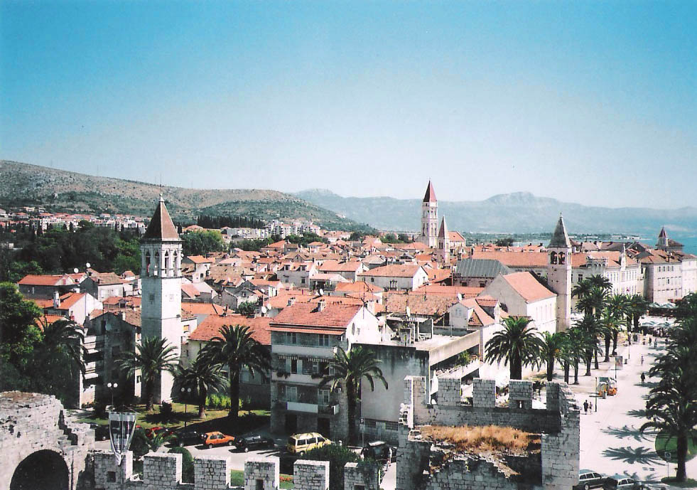 View of the old town of Trogir, Croatia (photograph is scanned)